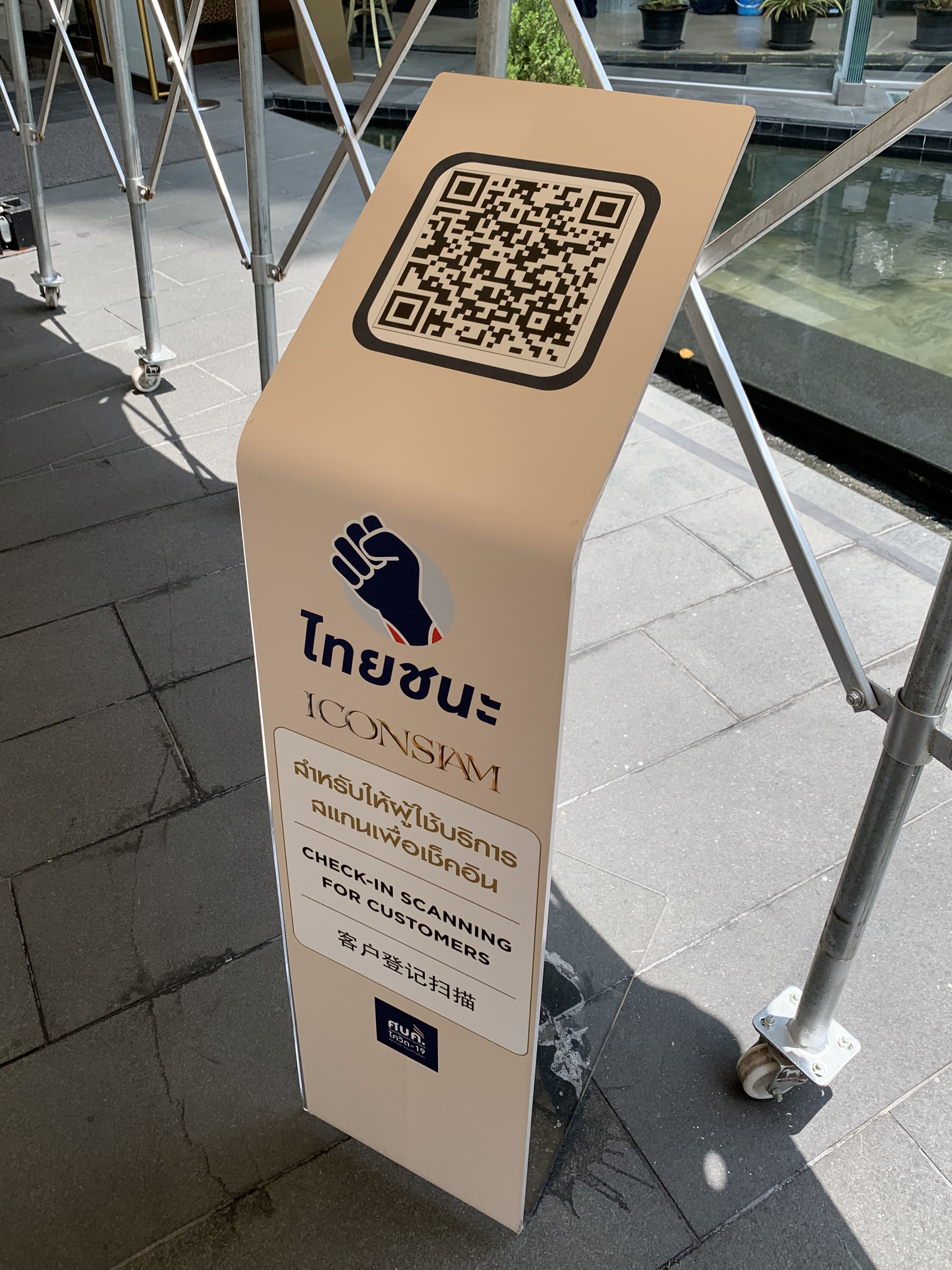 Thai Chana scanning point at Iconsiam